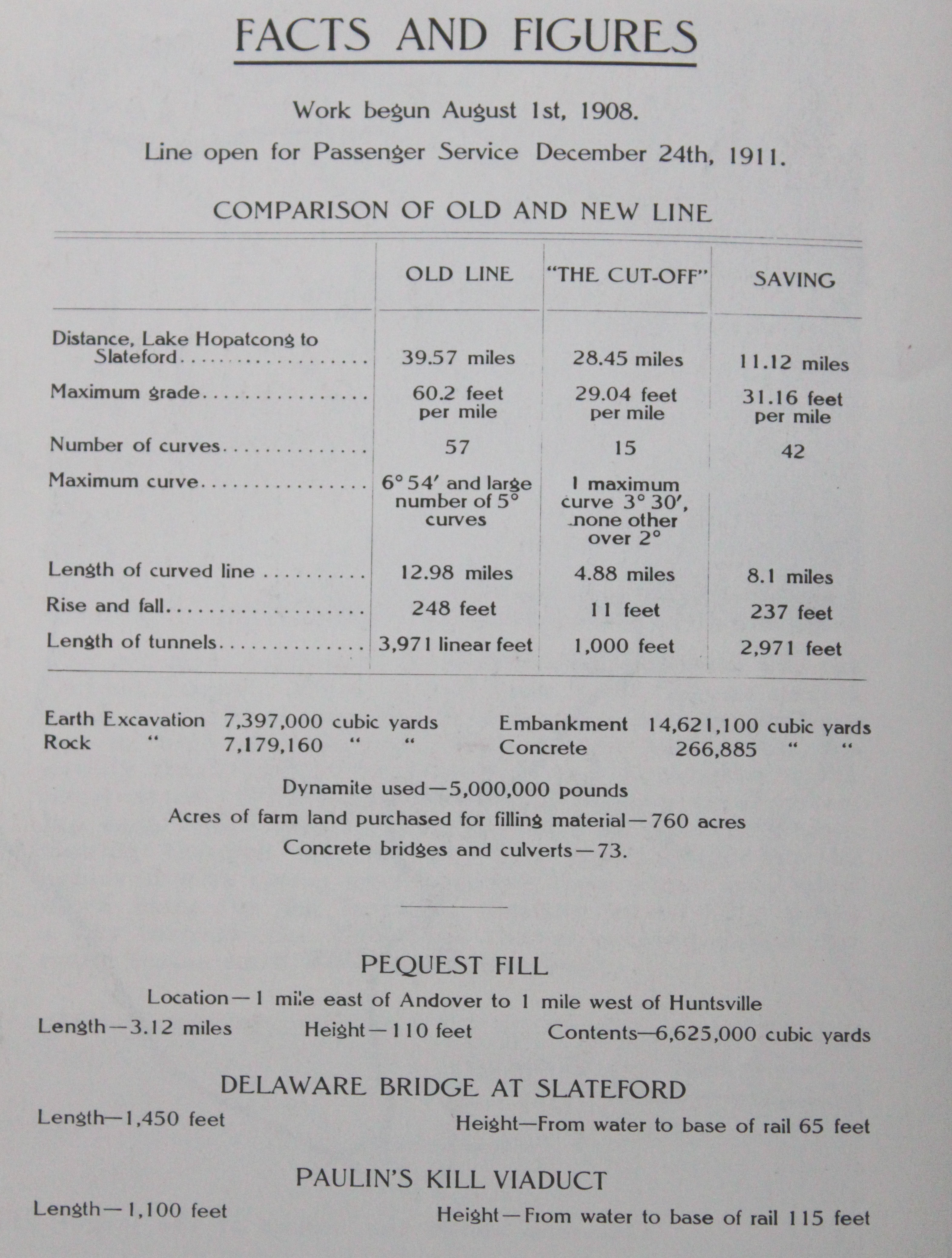 From brochure published by the Lackawanna Railroad in 1911.WallyFromColumbia (talk) 17:41, 14 August 2011 (UTC)